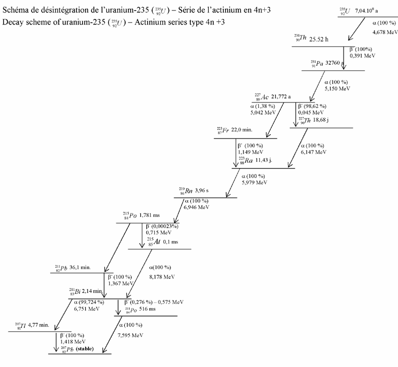 U235 decay scheme - actinium series 4n+3